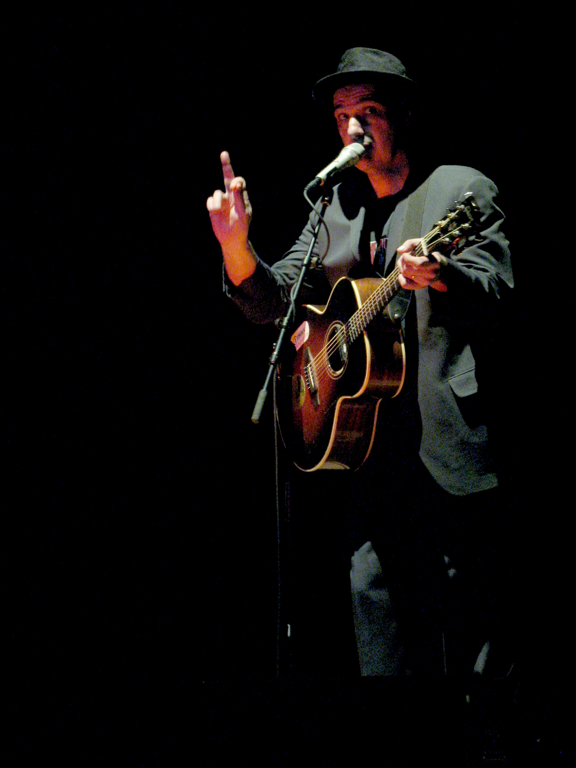 Dave Bidini performing with the Rheostatics at Massey Hall in Toronto, Ontario, Canada